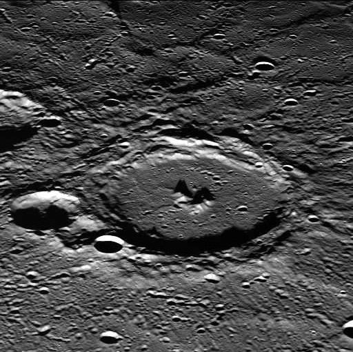 Oblique view of Gaudí crater on Mercury. MESSENGER WAC. Emission Angle: 56.3 Incidence Angle: 84.4 Latitude: 76.9 Longitude: 68.5 Phase Angle: 28.1